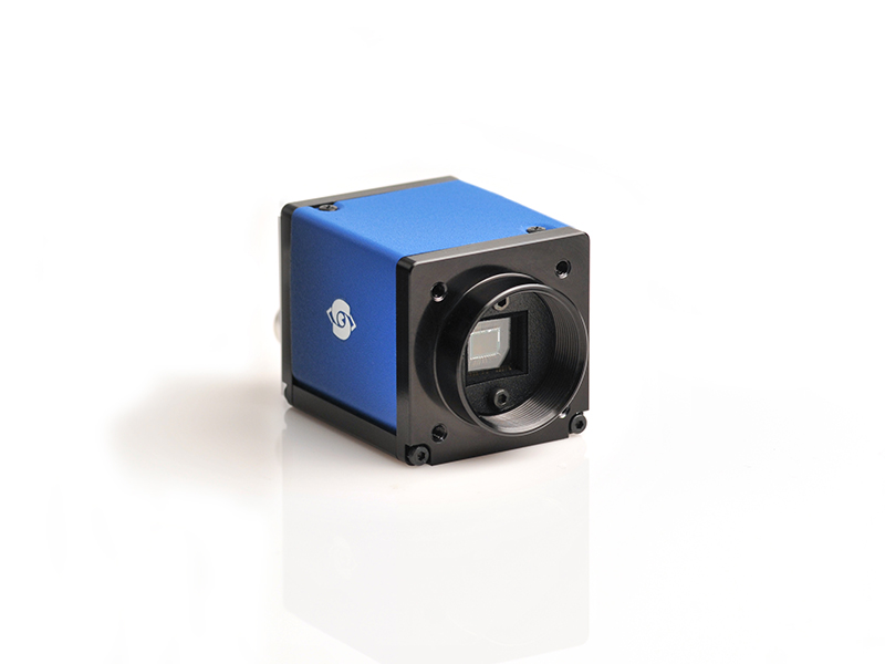 SVS-VISTEK - SVCam-ECO²